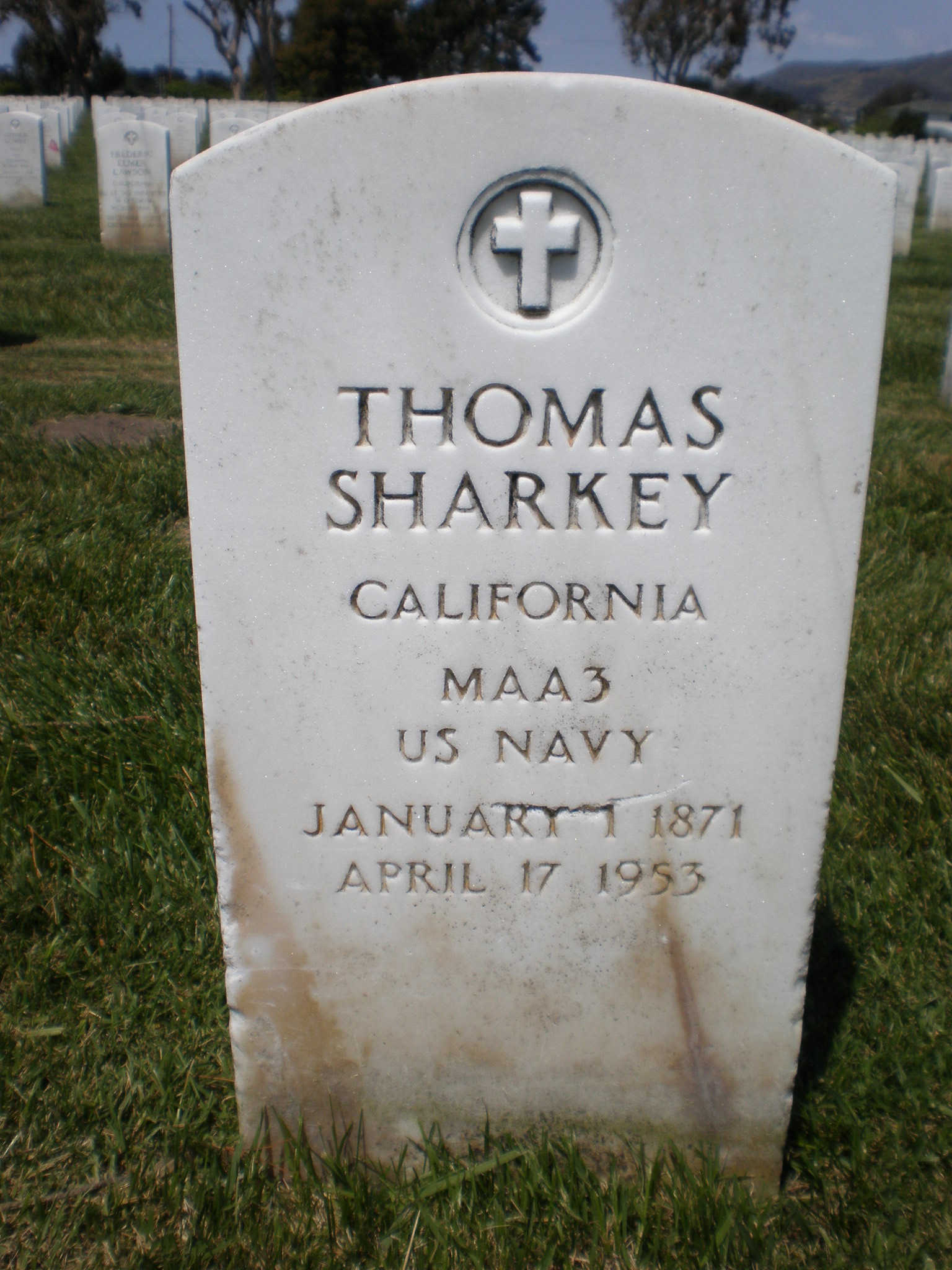 The headstone of Thomas Sharkey in Section R of Golden Gate National Cemetery in San Bruno, California.